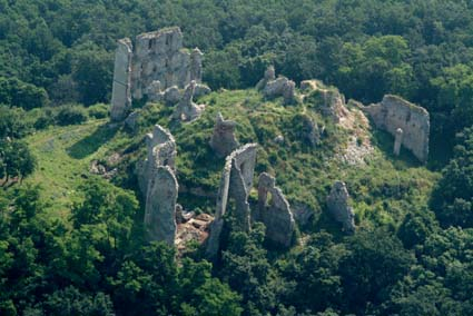 Oponice Castle, Slovakia, aerial photography